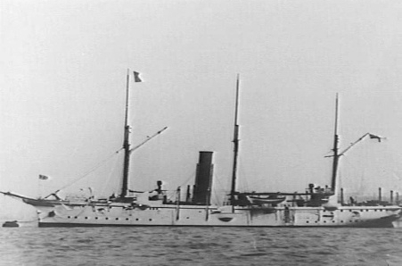 AWM caption : "DEVONPORT, ENGLAND. C.1888. PORT SIDE VIEW OF THE TORPEDO CRUISER HMS ARCHER. SHE IS PAINTED WHITE FOR SERVICE ON THE CHINA STATION. NOTE THE 6 INCH GUNS IN SHIELDS ALONG HER SIDE AND THE TORPEDO TUBES INSET INTO HER SIDE FORE AND AFT. ANOTHER TORPEDO TUBE PROTRUDES FROM HER BOW."